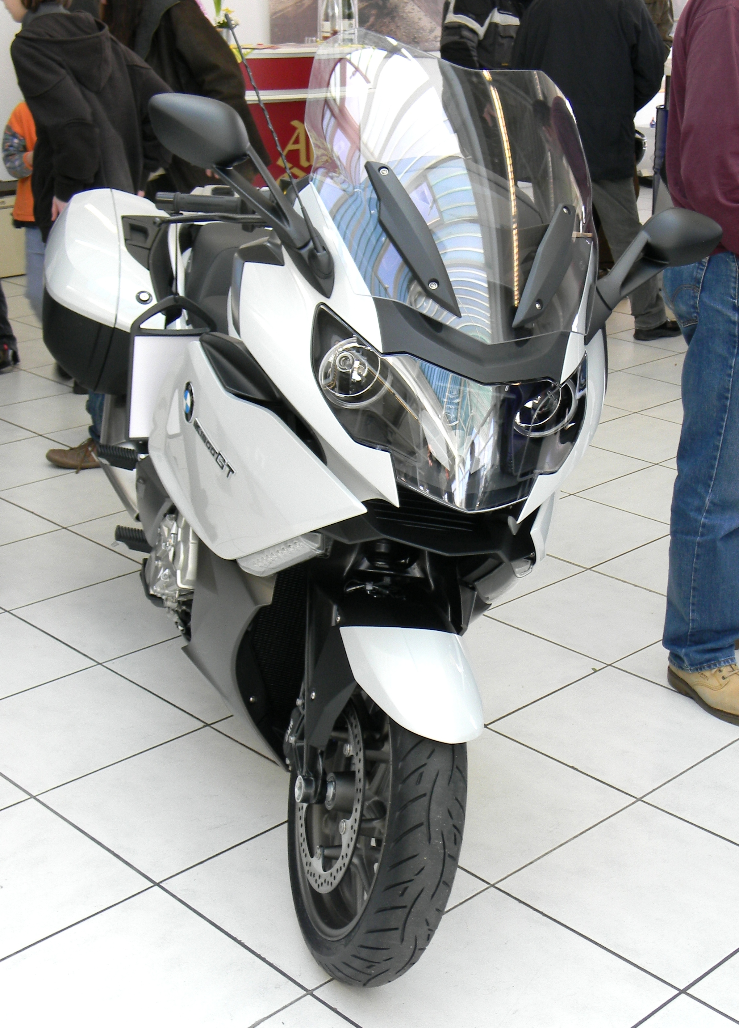 Front view of a BMW K 1600 GT